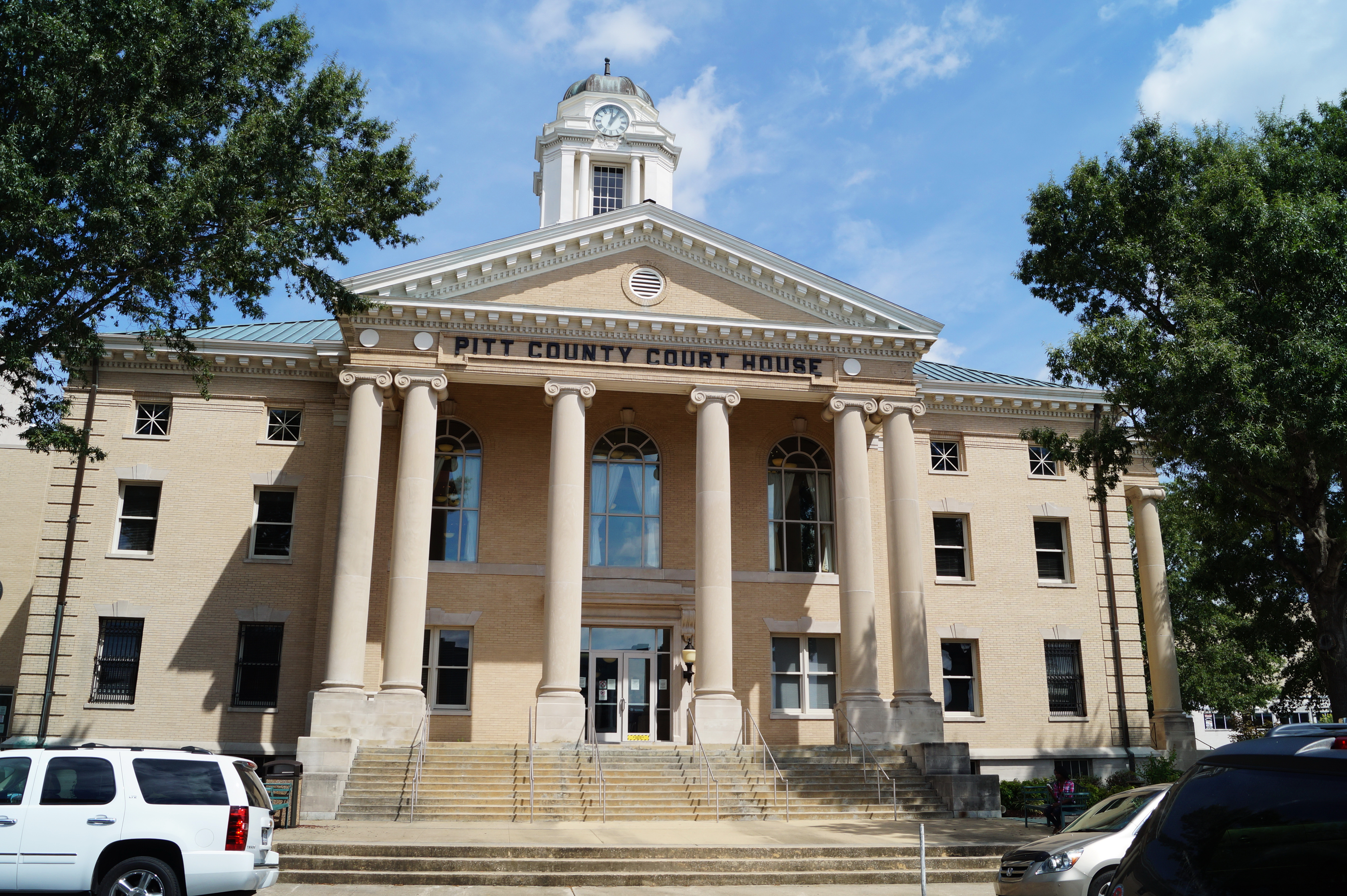 Pitt County Courthouse located at 100 W. Third St., Greenville, NC